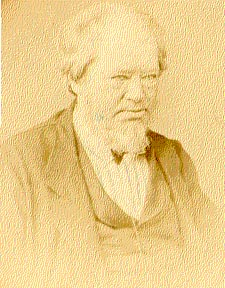 portrait of author and illustrator Robert William Buss